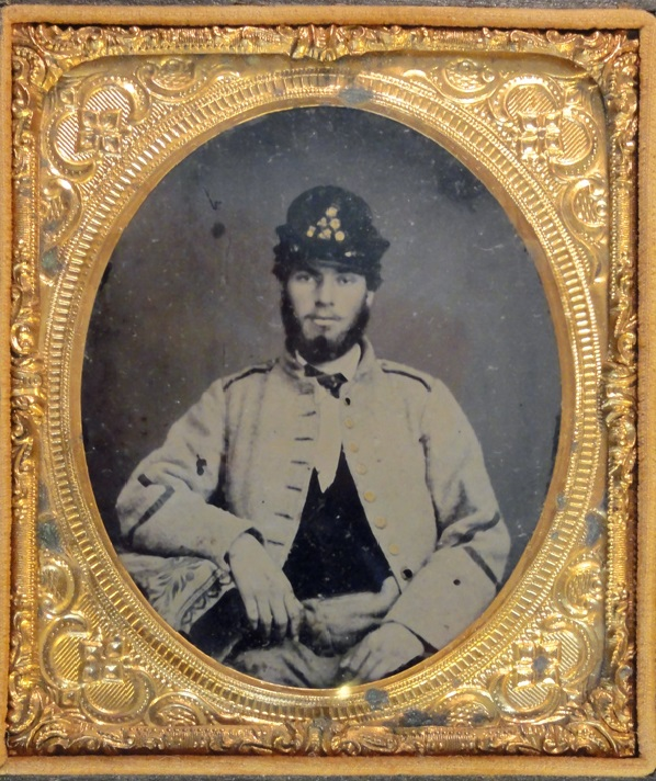 The image is of Captain Michael Philip Usina (1840 - 1903) who was a member of the Confederate States Navy. He was born in St. Augustine, Florida, to Spanish parents. As Captain of several blockade runners, Usina managed to avoid capture on his many successful missions. Usina fought in Co. B in the 8th Georgia Infantry of the Confederate Army before being transferred to the Navy. He was wounded and captured in the Battle of Manassas, but managed to escape and reach the Southern lines